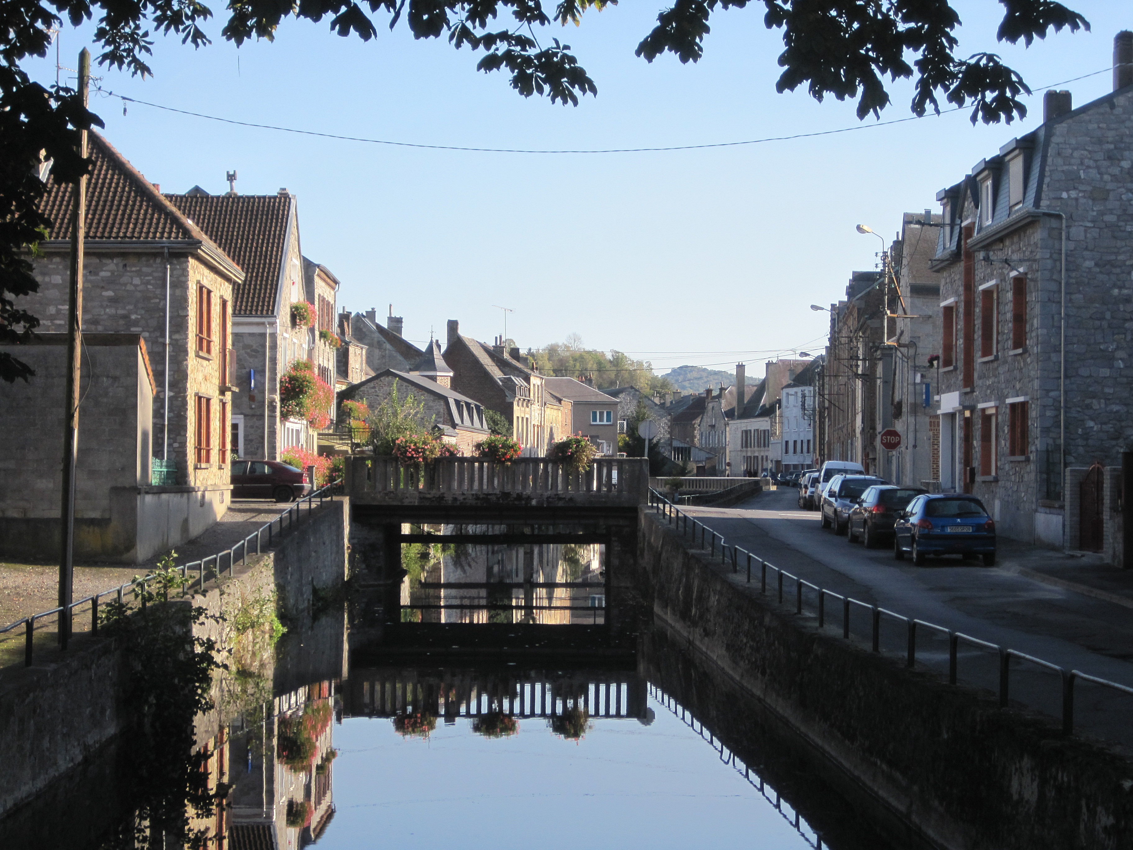 The Houille river and the Quai de la Houille in Givet (Ardennes department, France). Walon: Li rivîre Houye èt l'kê dol Houye a Djivet (dèpârtèmin dès Ârdènes, France)